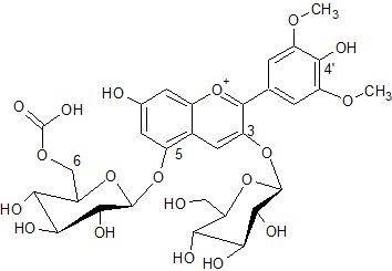 malvidin 3-(6-acetylglucoside)